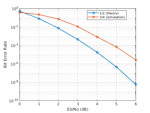 Created with help to MatLab 2014a. MATLAB script.